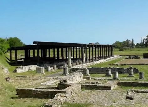 Archeologic area of Potentia